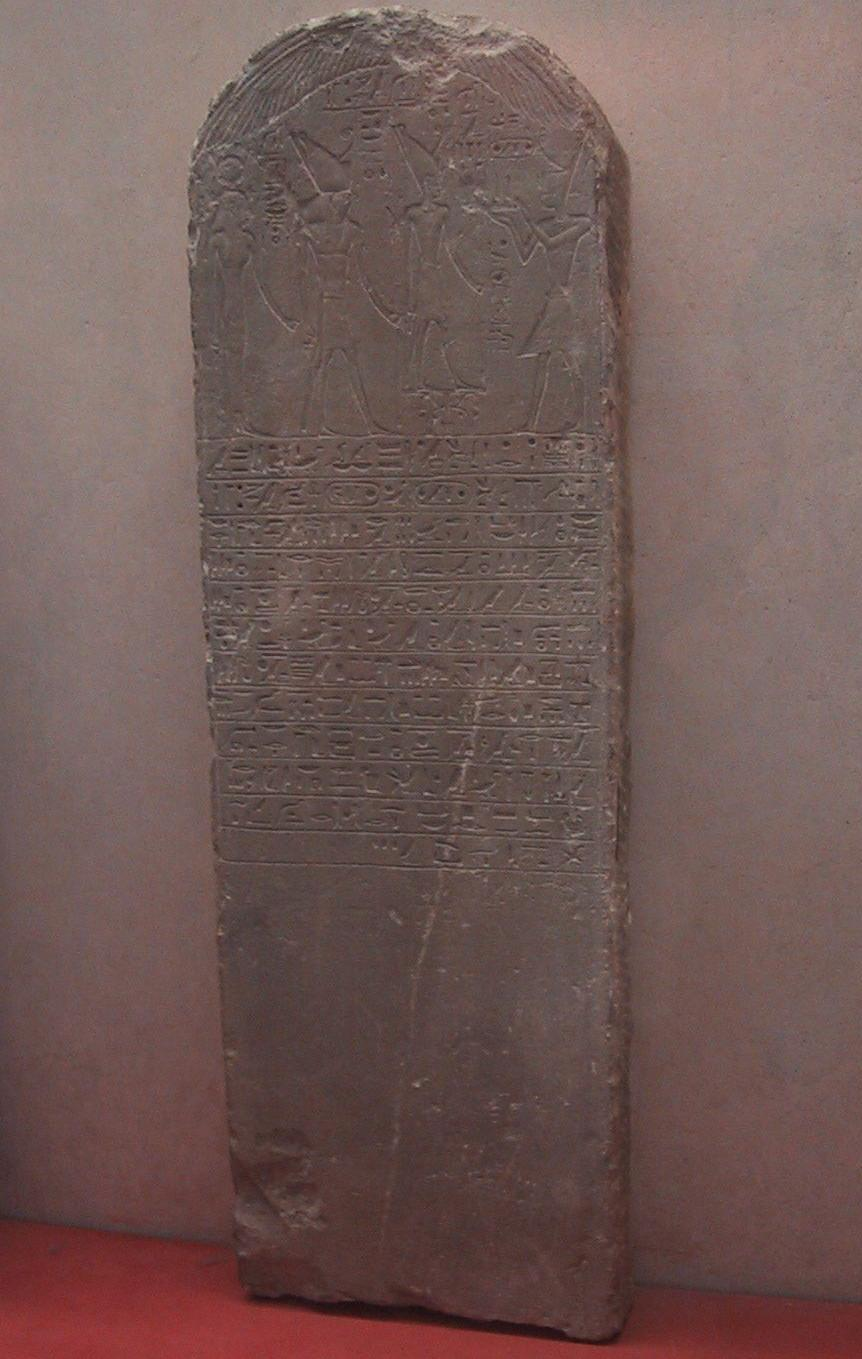 Grant of a parcel of land by an individual to a temple. Upper registry: Pharaoh, theoretically the owner of all land, gives on behalf of the granter a hieroglyph representing the plot to the gods Hathor and Horus Semataoui. Stele dated back from the first year of Amasis (570 BC). Limestone, 26th Dynasty.